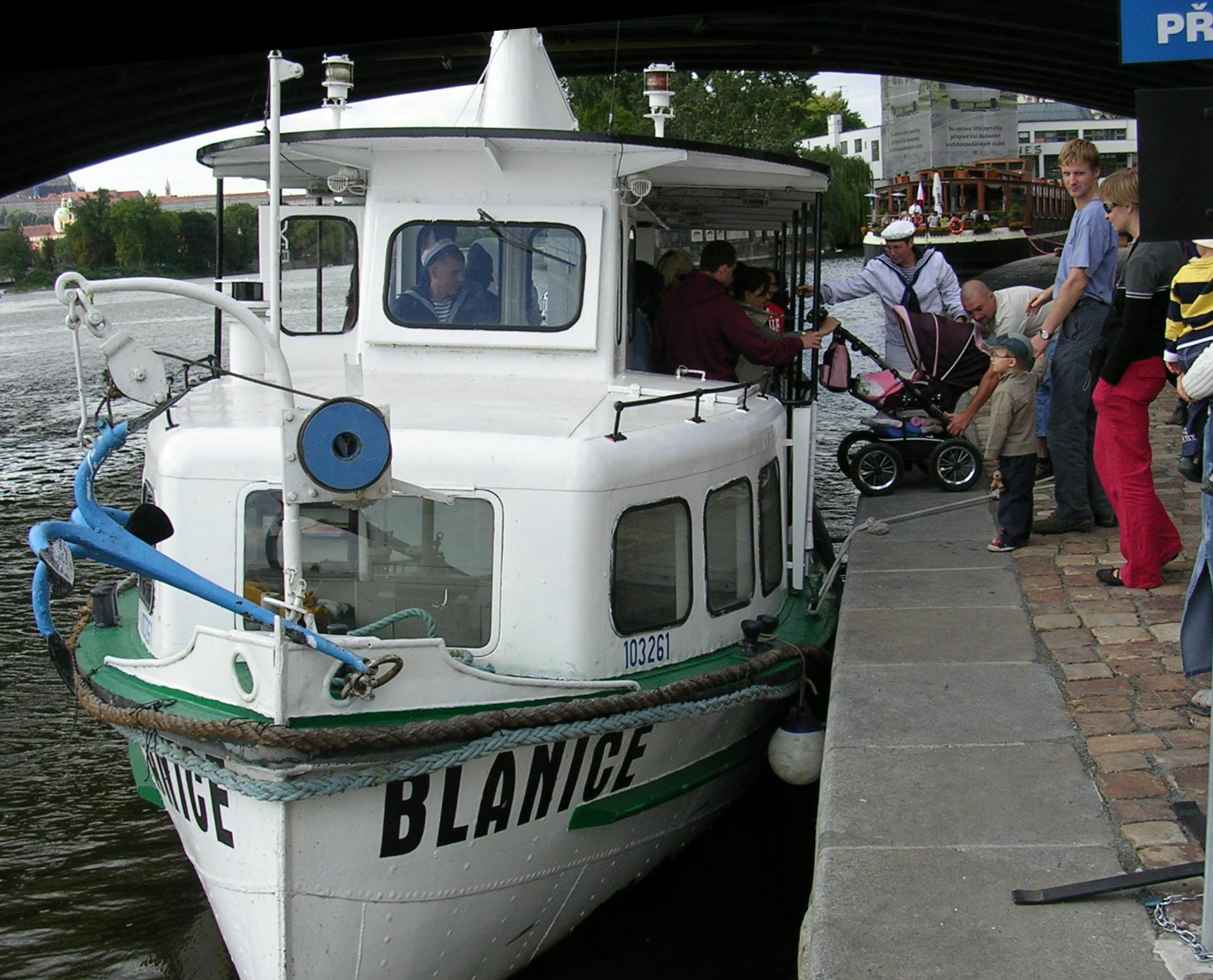 Ferry P5, Prague, the Czech Republic.